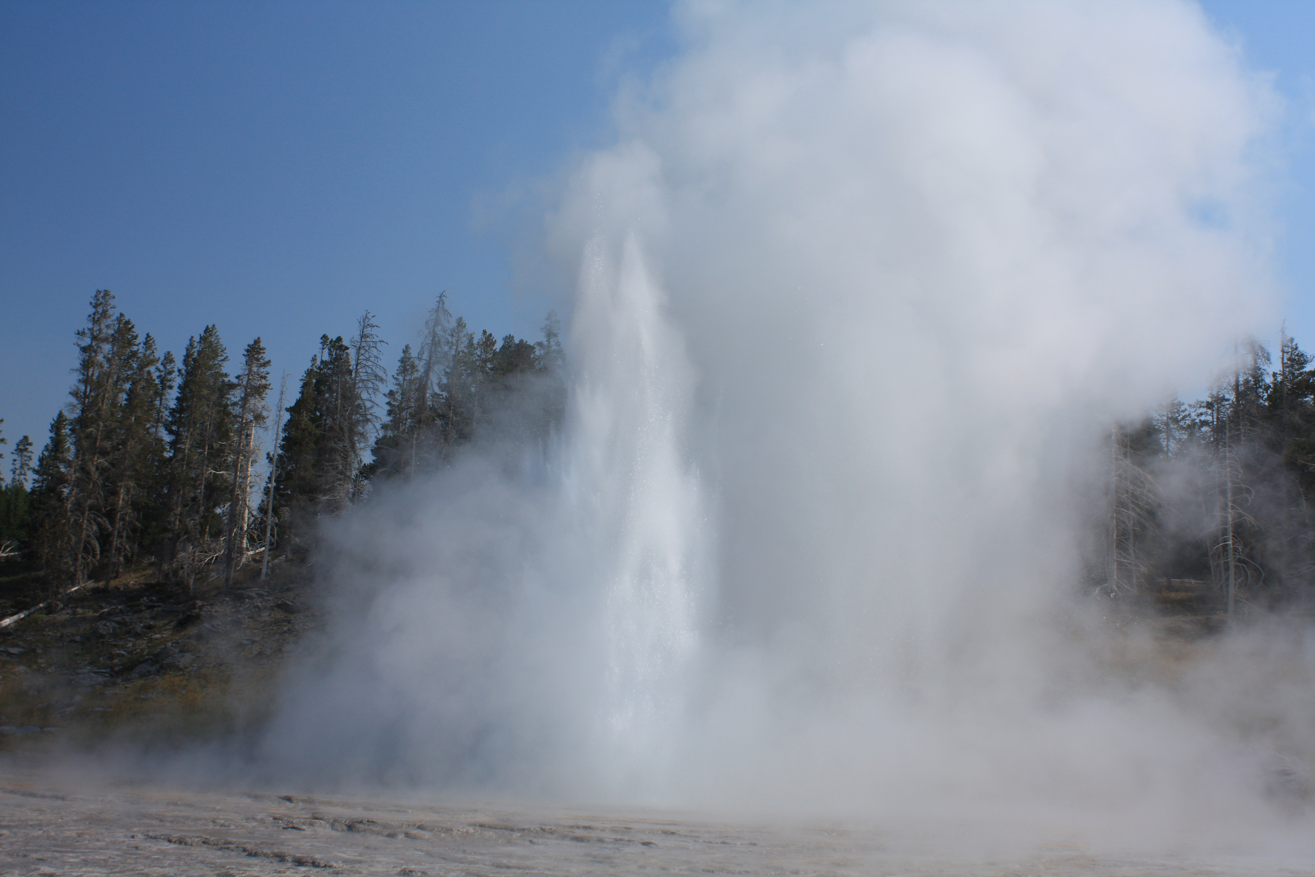 Grand Geyser in Yellowstone, Upper Geyser Basin, August 2012